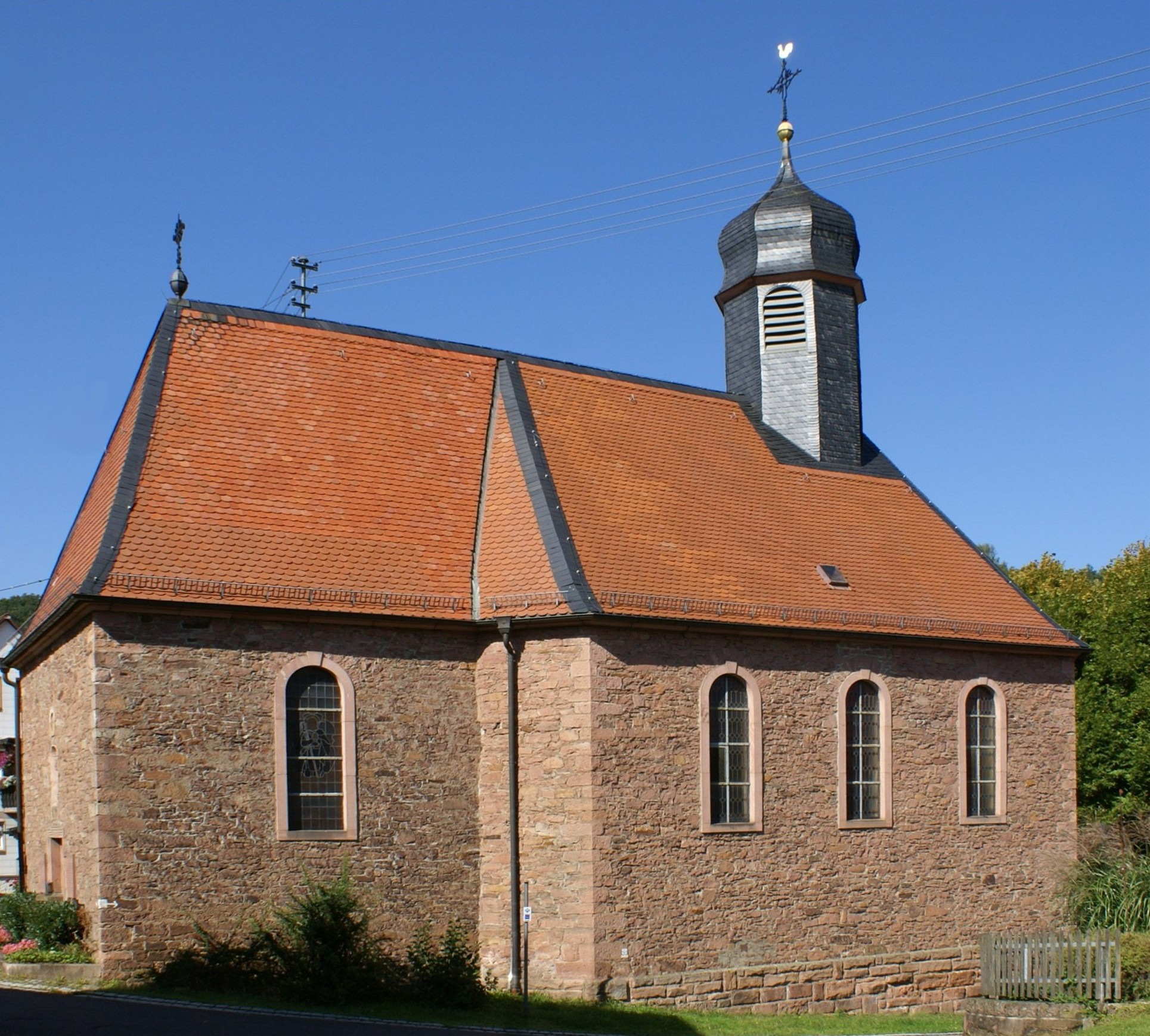 The church St. Thekla in Habichsthal that is part of Markt Frammersbach